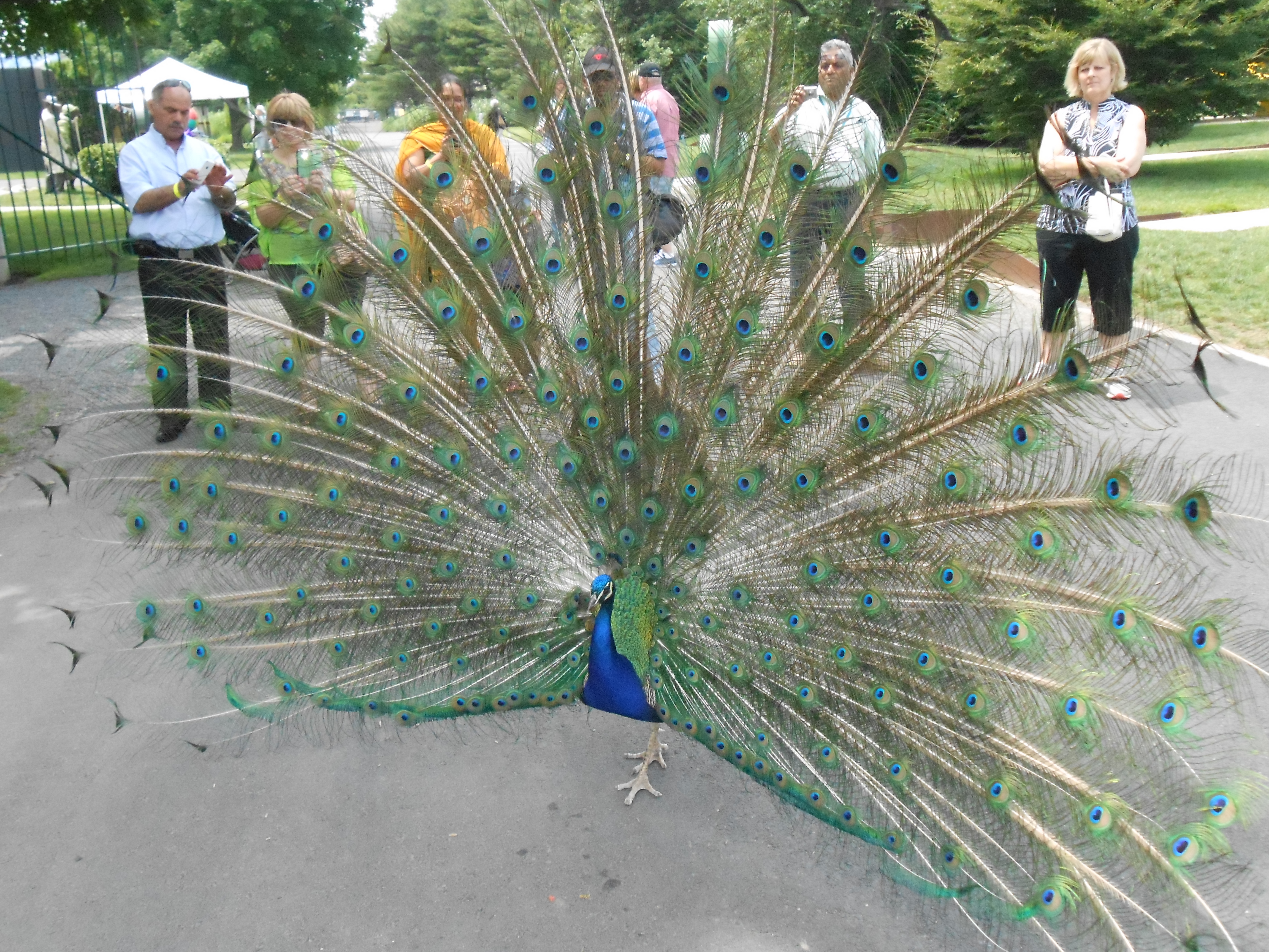 Peacock at the Grounds for Sculpure